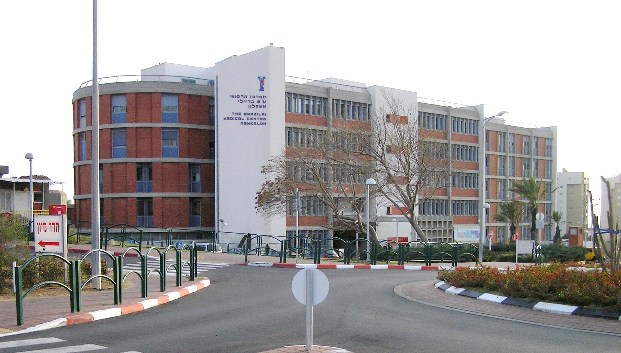 Barzilai Hospital, Ashkelon - hospitalization building